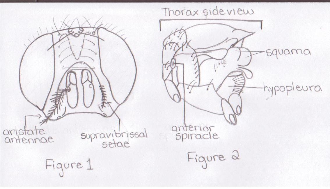 facial and thoracic views.